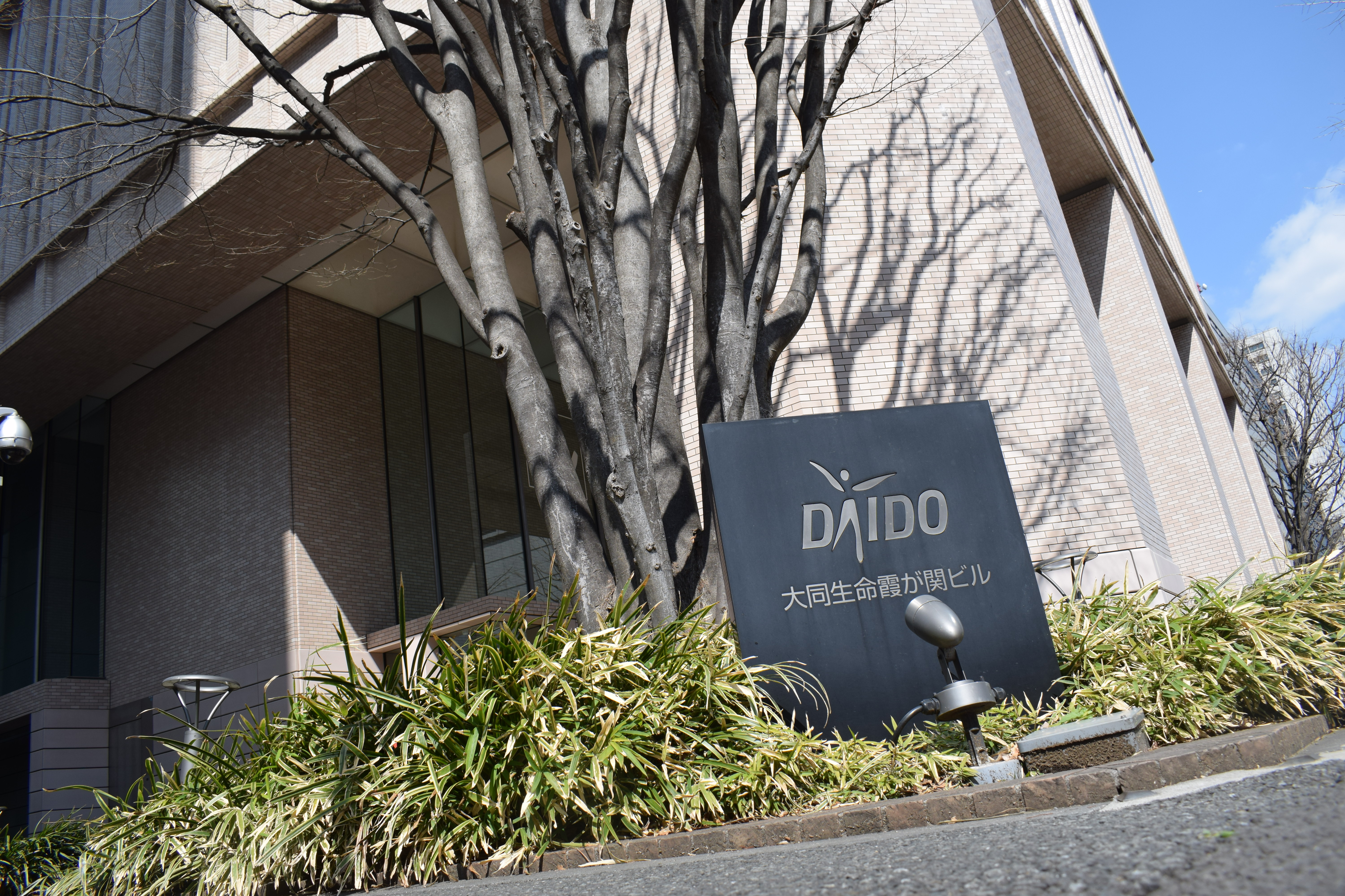 Daido Seimei Kasumigaseki Building, Tokyo